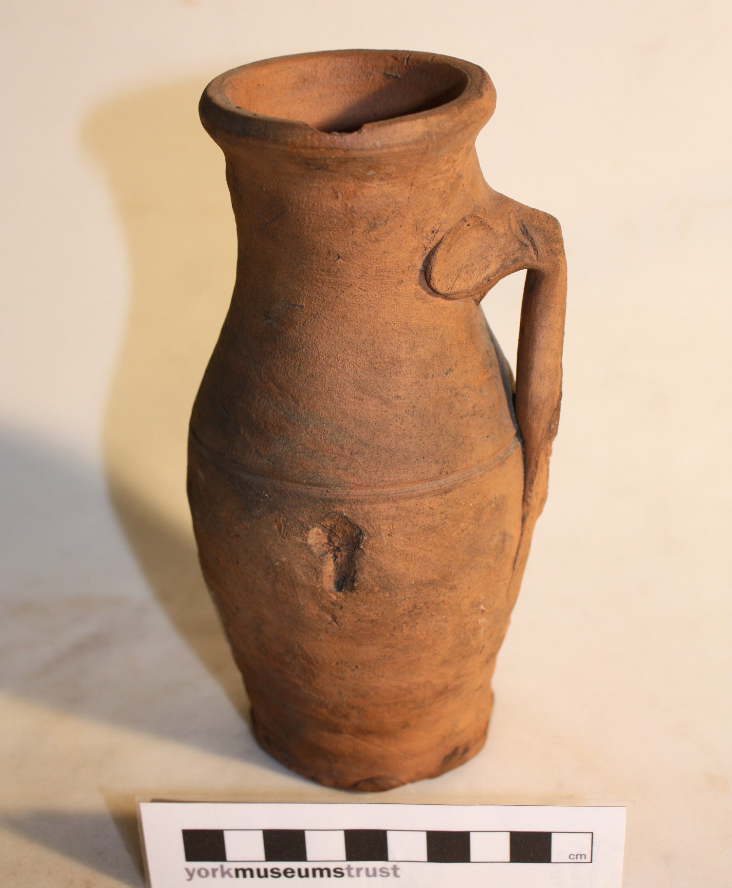 Short squat drinking jug with handle. Labelled 'YPH - YMAO 86, Aug 78. Type III (b).'